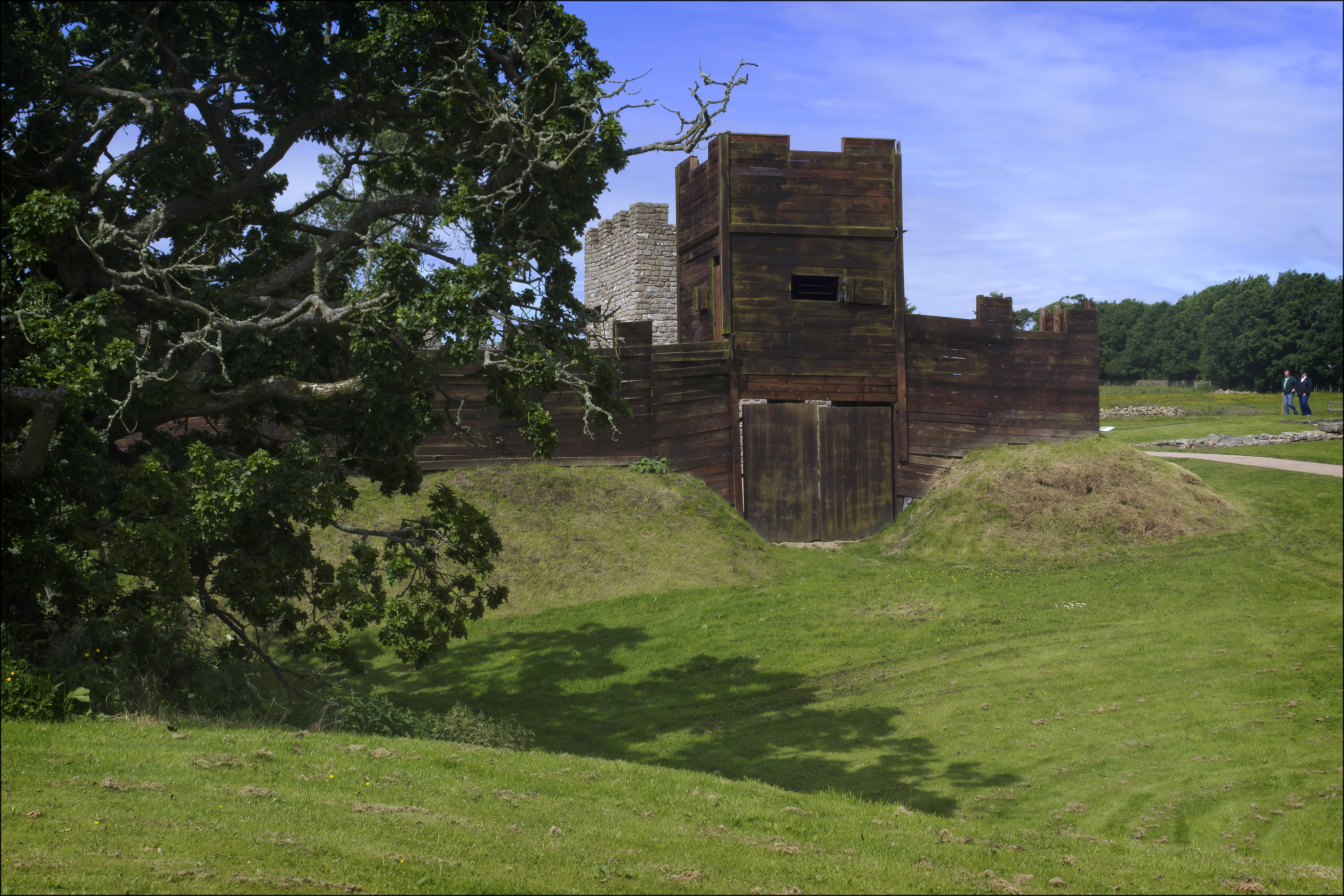 Tyne & Wear